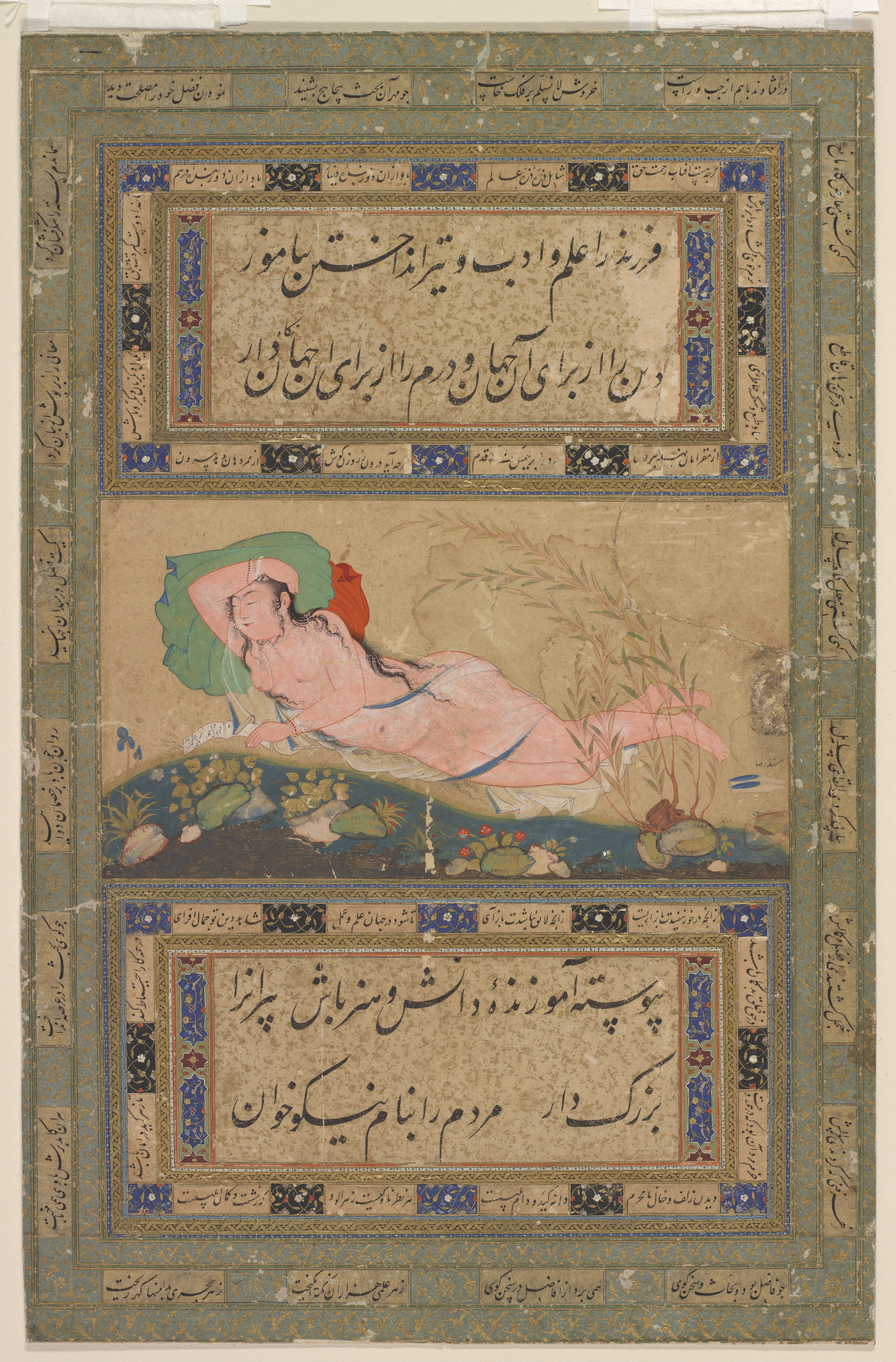 Reclining nude